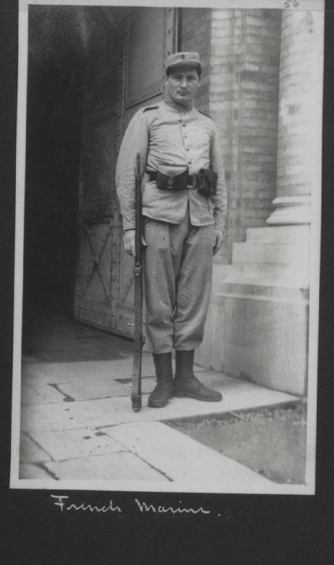 Photograph of French Marine Legation Guard in China, circa 1919. From the J.P. Brown Collection (COLL/3790) at the Marine Corps Archives & Special Collections.